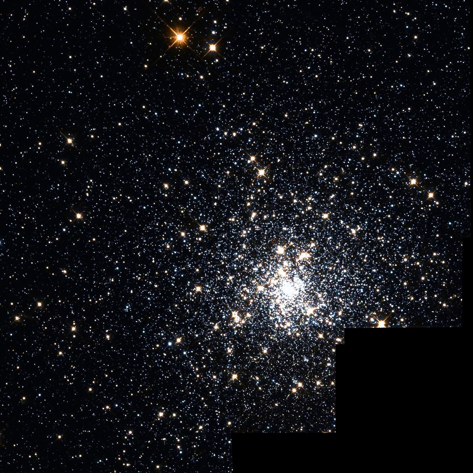 NGC 6293 globular cluster by Hubble space telescope